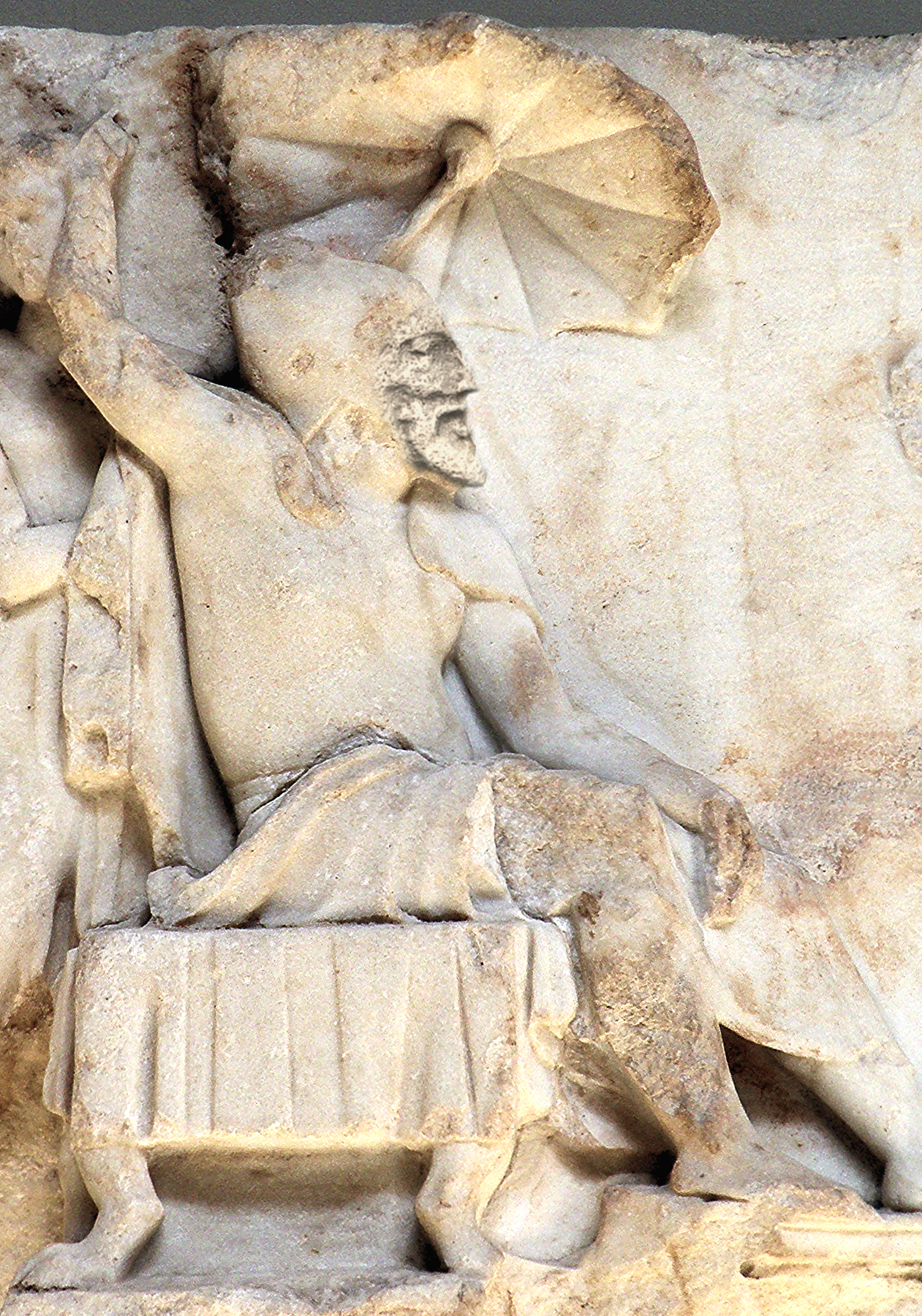 Arbinas reconstitution